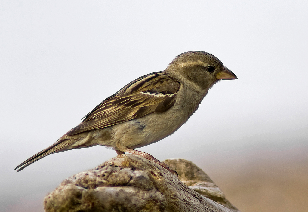 Female House Sparrow in New Castle, Delaware